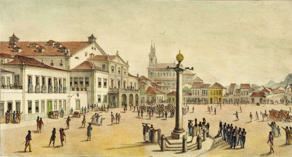 View of Royal Theatre of Saint John in Rio de Janeiro, Brazil